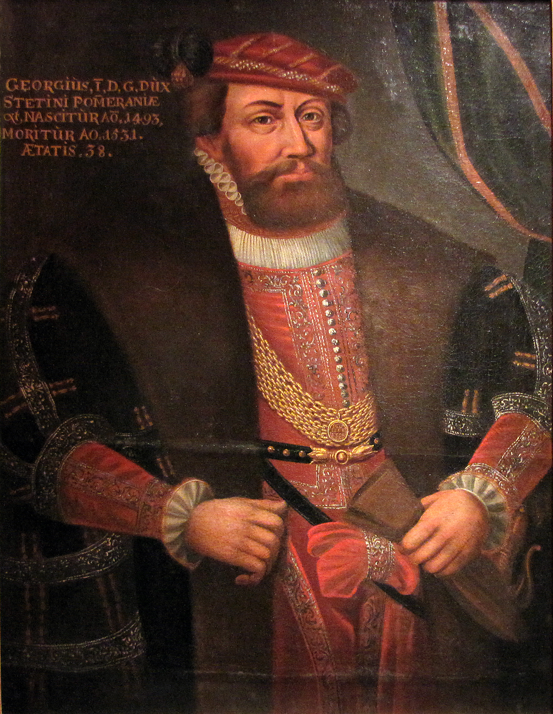 George I of Pomerania. Painting in Pommersches Landesmuseum, Greifswald. Copy made around 1750 from of a painting originally kept in the Anklam City Hall.